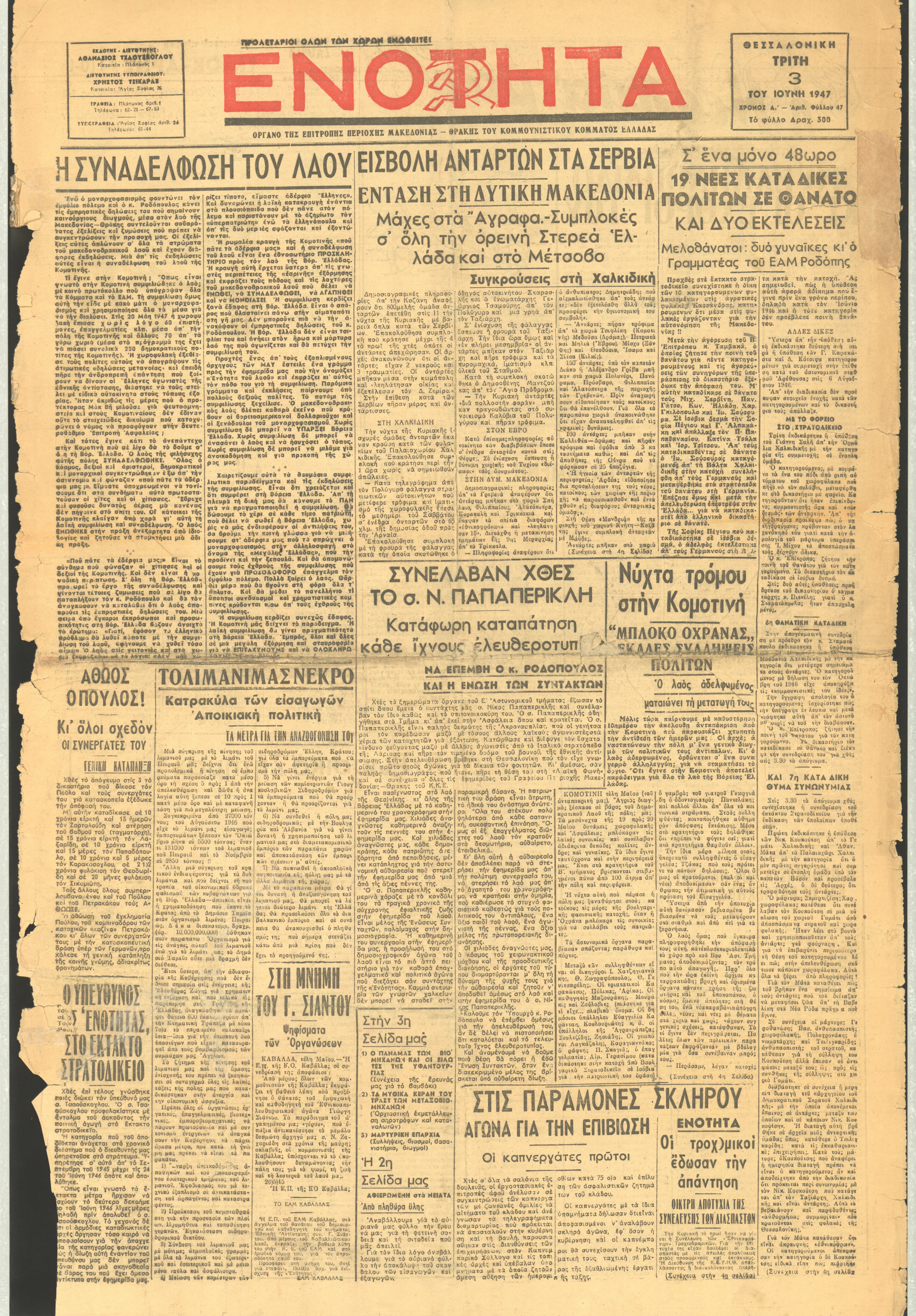 Enotita 3 June 1947